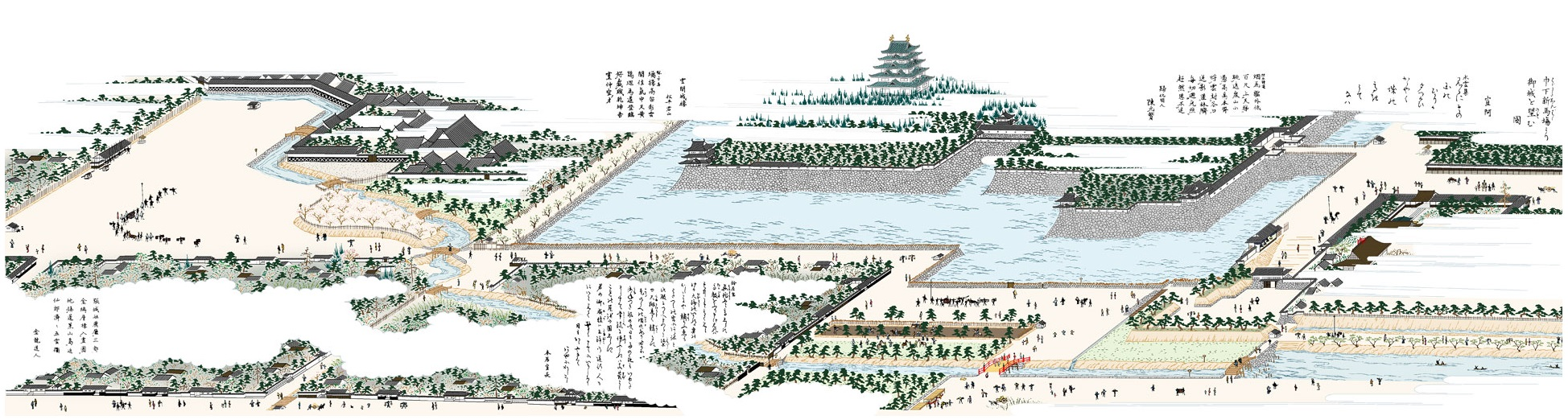 Print from the Owari meisho zue depicting Nagoya Castle in the late Edo period seen from the west. From right: Tōshō-gū, "cormorant's neck" moat, main keep, northwestern turret, and the retreat of Lord Tokugawa Naritomo (徳川 斉朝) in Horibata-chō (堀端町) on the left. The Hori river is running below.